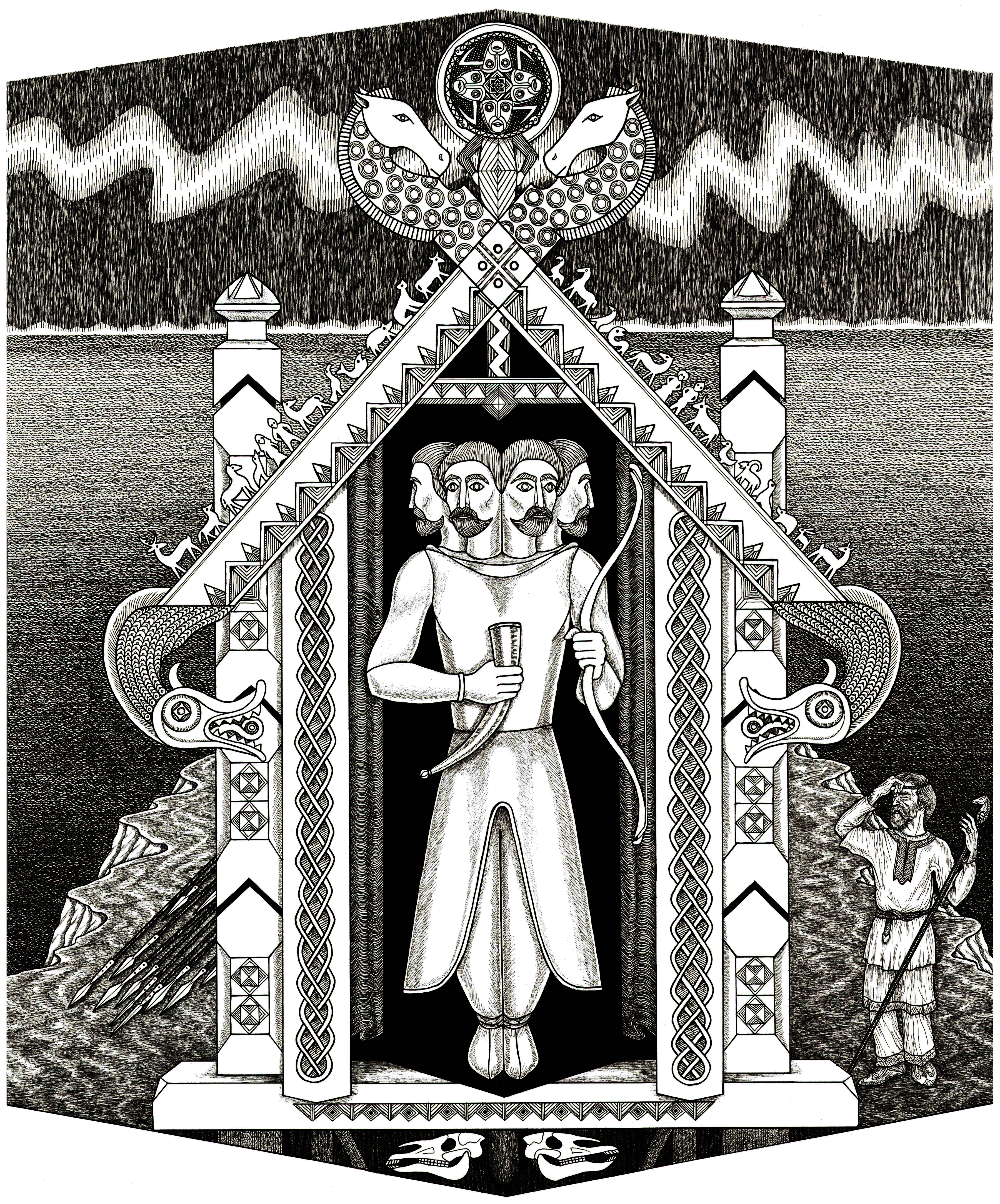 Świętowit of Rugia by Marek Hapon